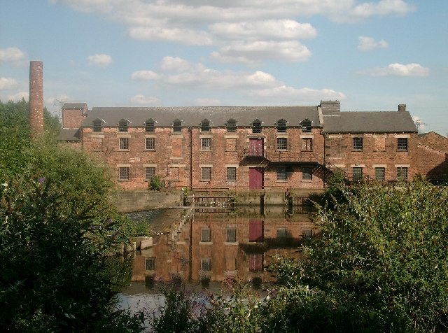 Thwaite Mills. Thwaite Mills contains a fully restored working water-powered mill.